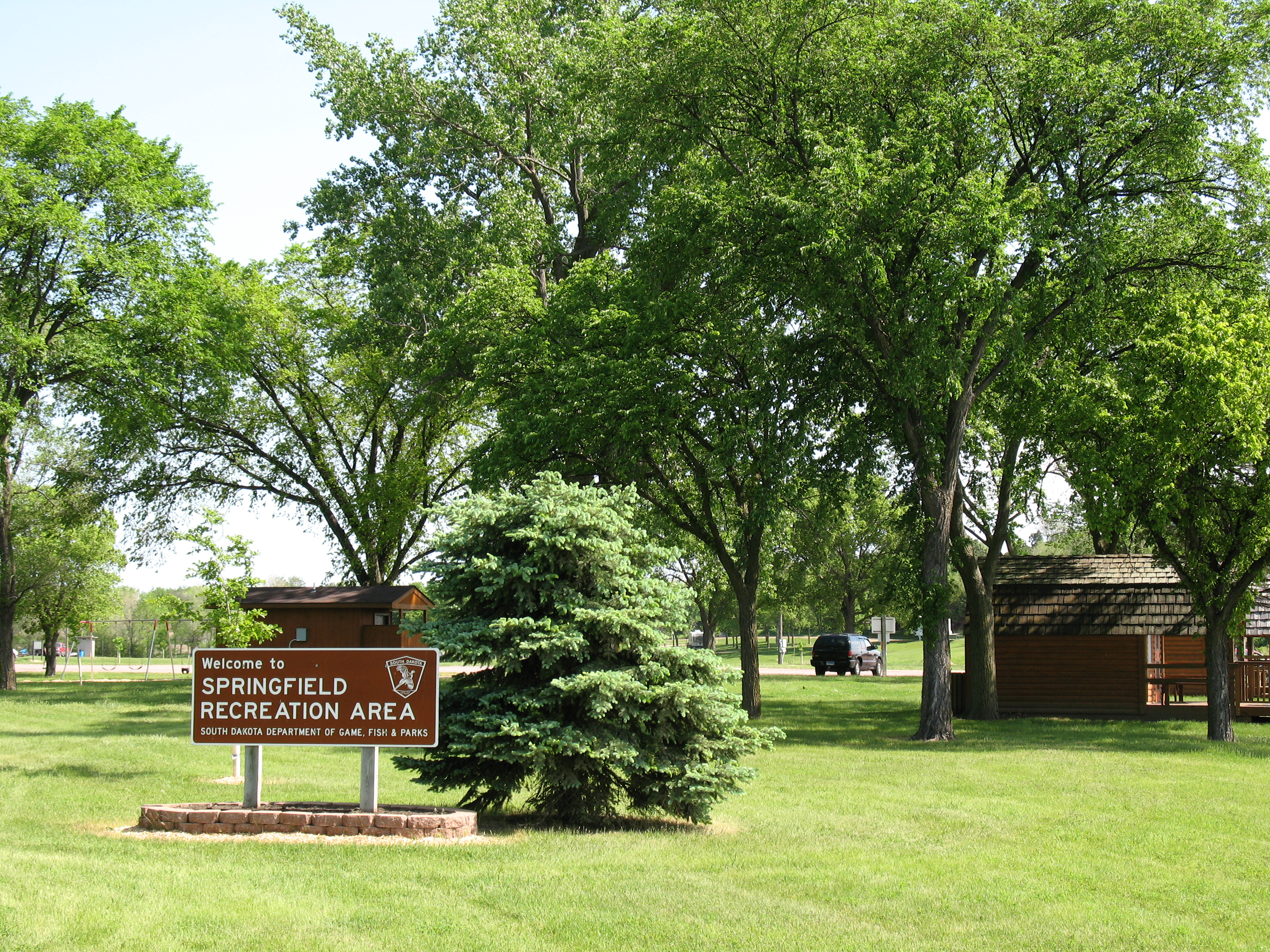 The entrance to the Springfield Recreation Area in Springfield, South Dakota, U.S.A.